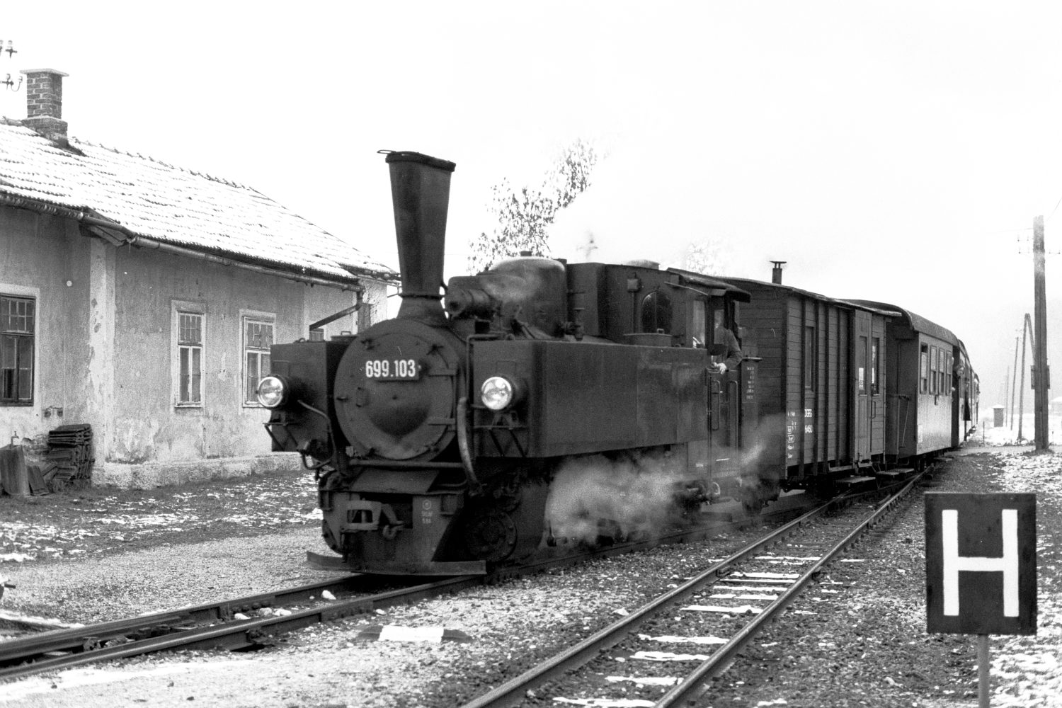 Train of the preserved Steyrtalbahn entering Aschach station, Upper Austria. The loco 699.103 is a fomer narrow gauge war engine and was in regular use until closure of the line in 1982.